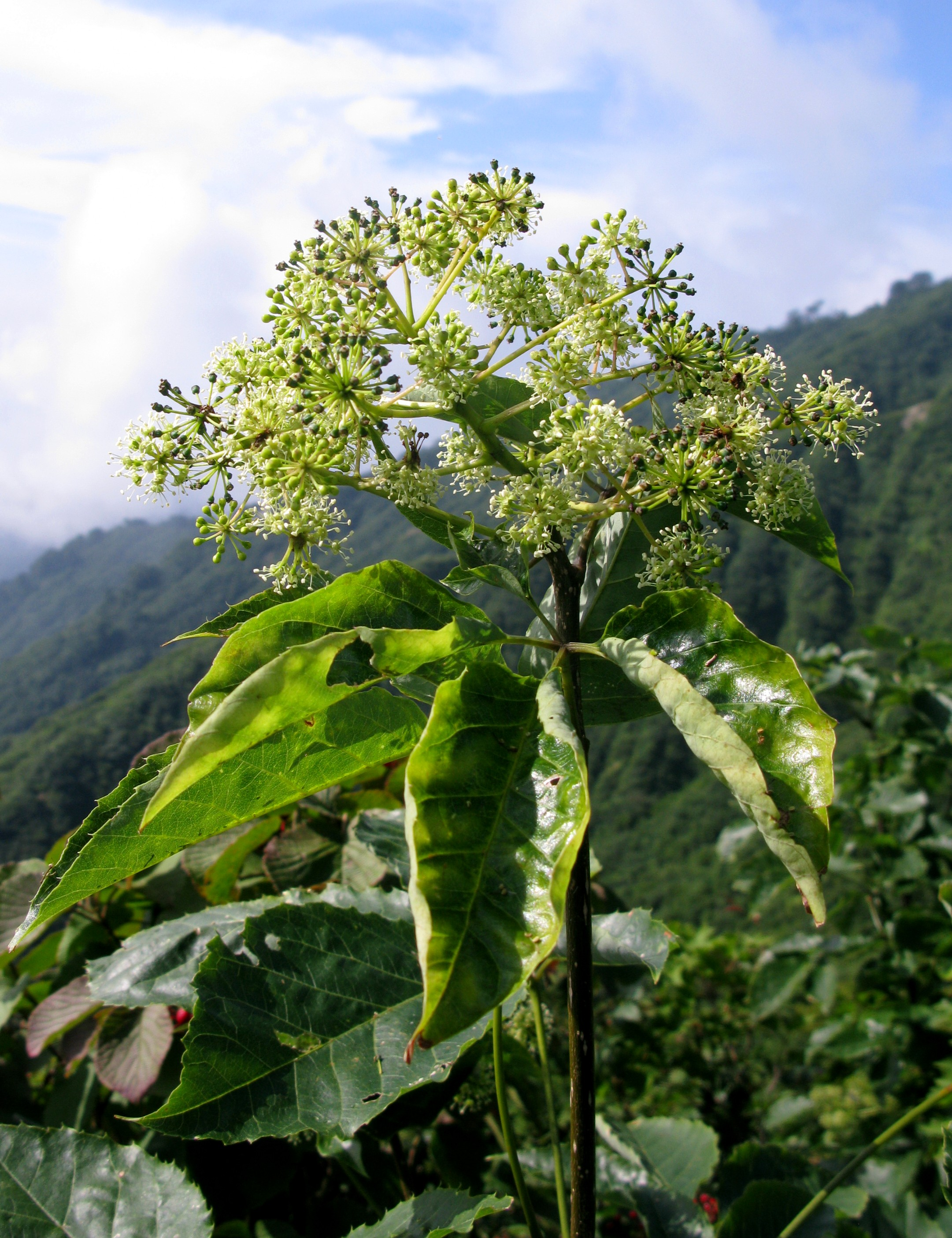 Chengiopanax sciadophylloides ,Aizu area, Fukushima pref., Japan